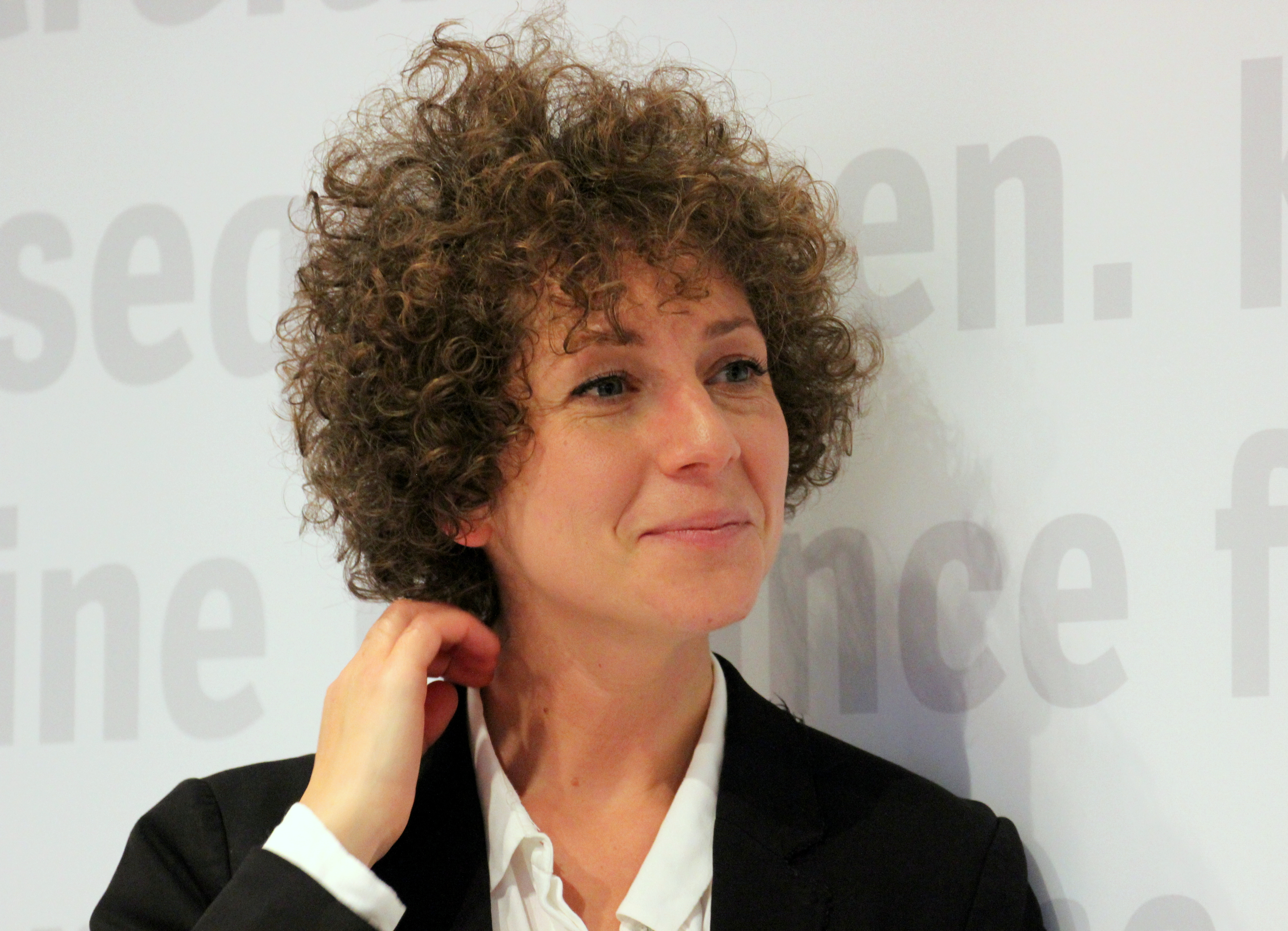 Marianna Salzmann, Frankfurt Book Fair 2017